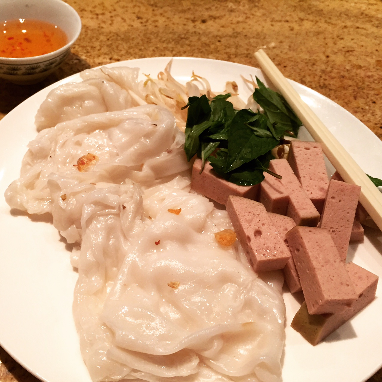 Typical serving of bánh ướt, with side of chả lụa, bean sprouts, basil, and nước chấm in the background